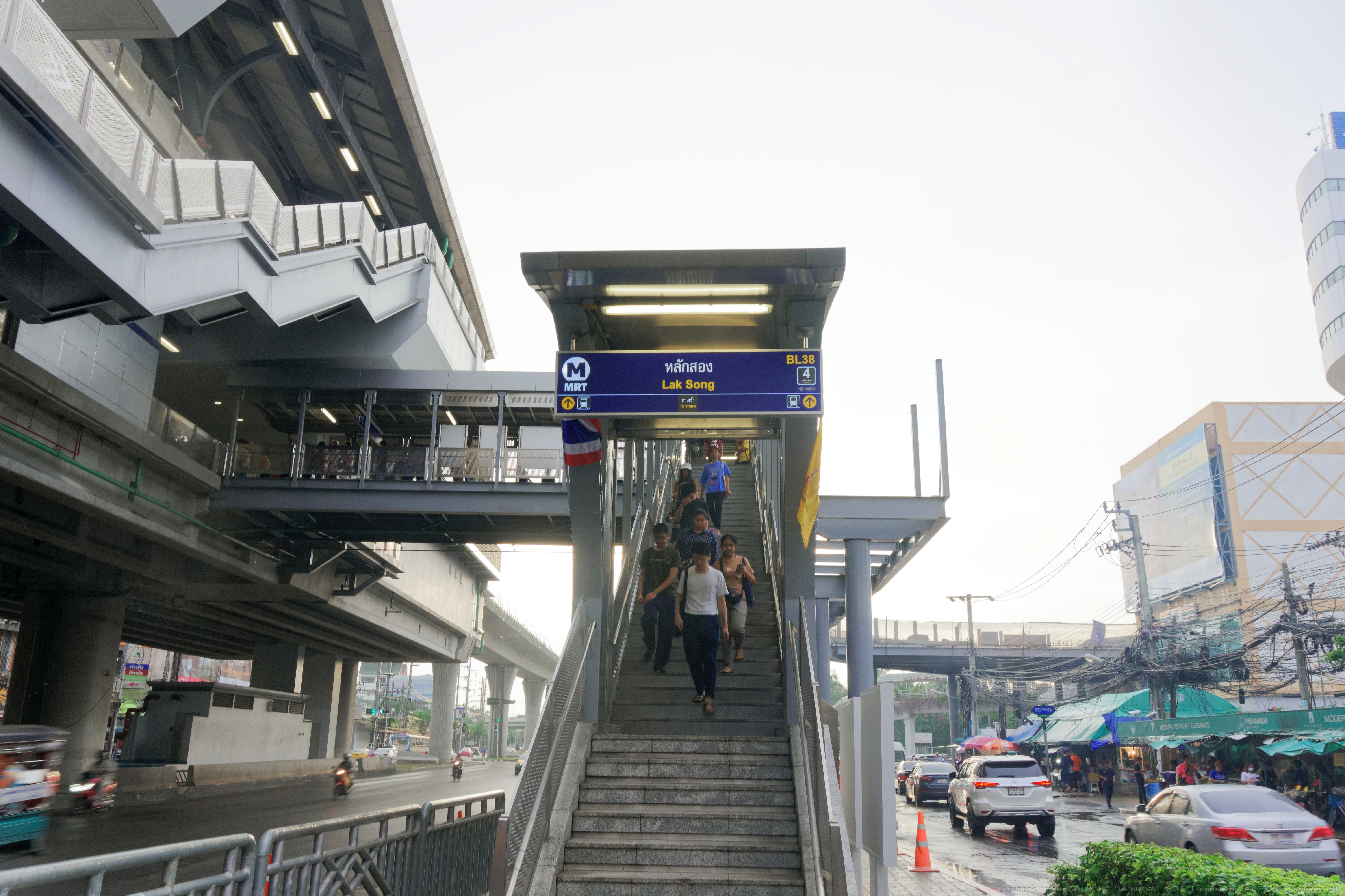 MRT Lak Song station: Exit #4 (near The Mall Bangkae shopping mall)